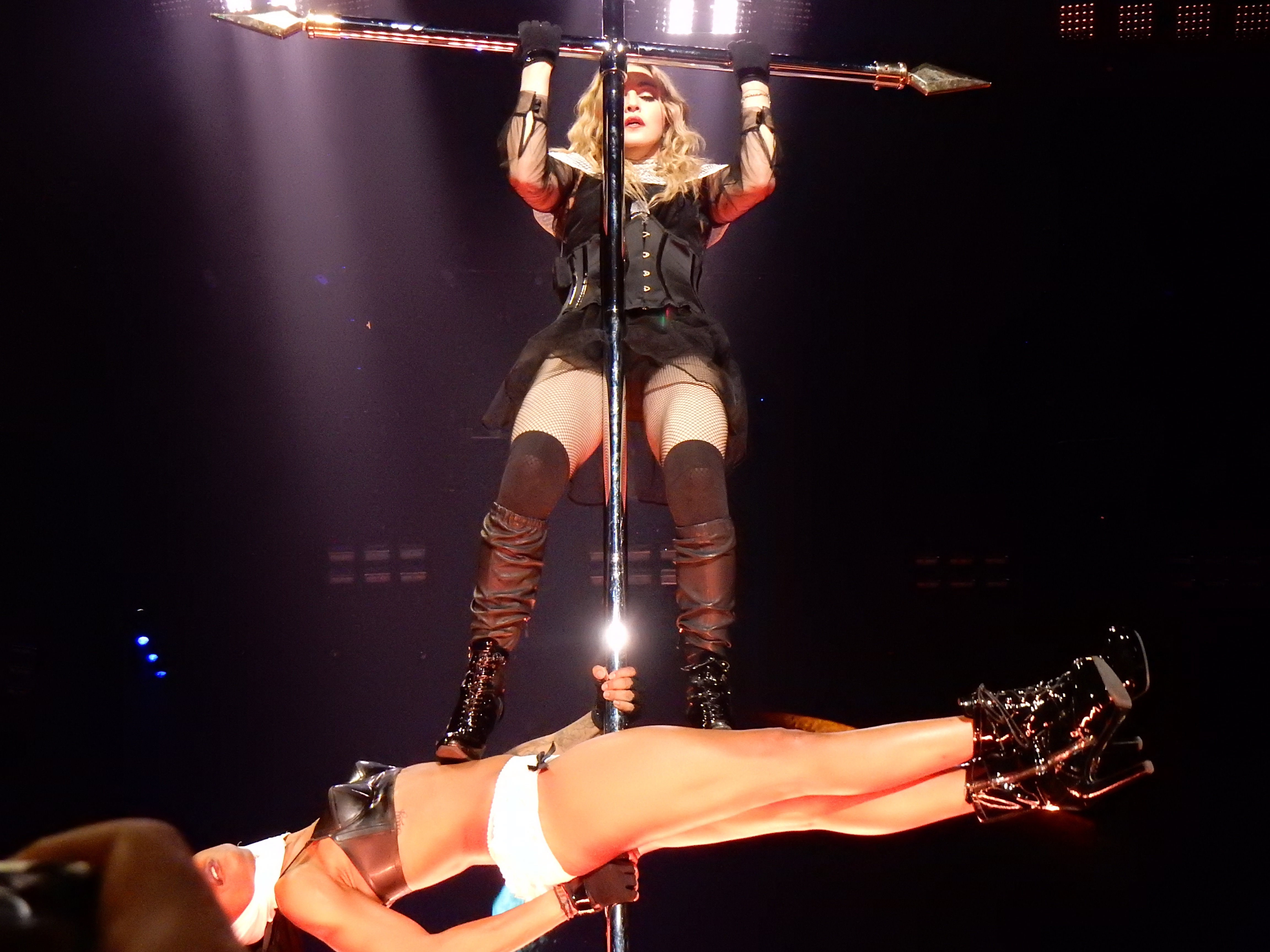 Madonna - Rebel Heart Tour 2015 - Paris 1